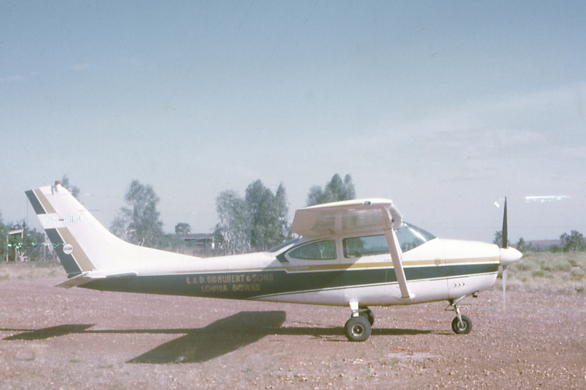 The Cessna C182 used by Les Schubert for pioneering aerial mustering in the Kimberleys in 1968